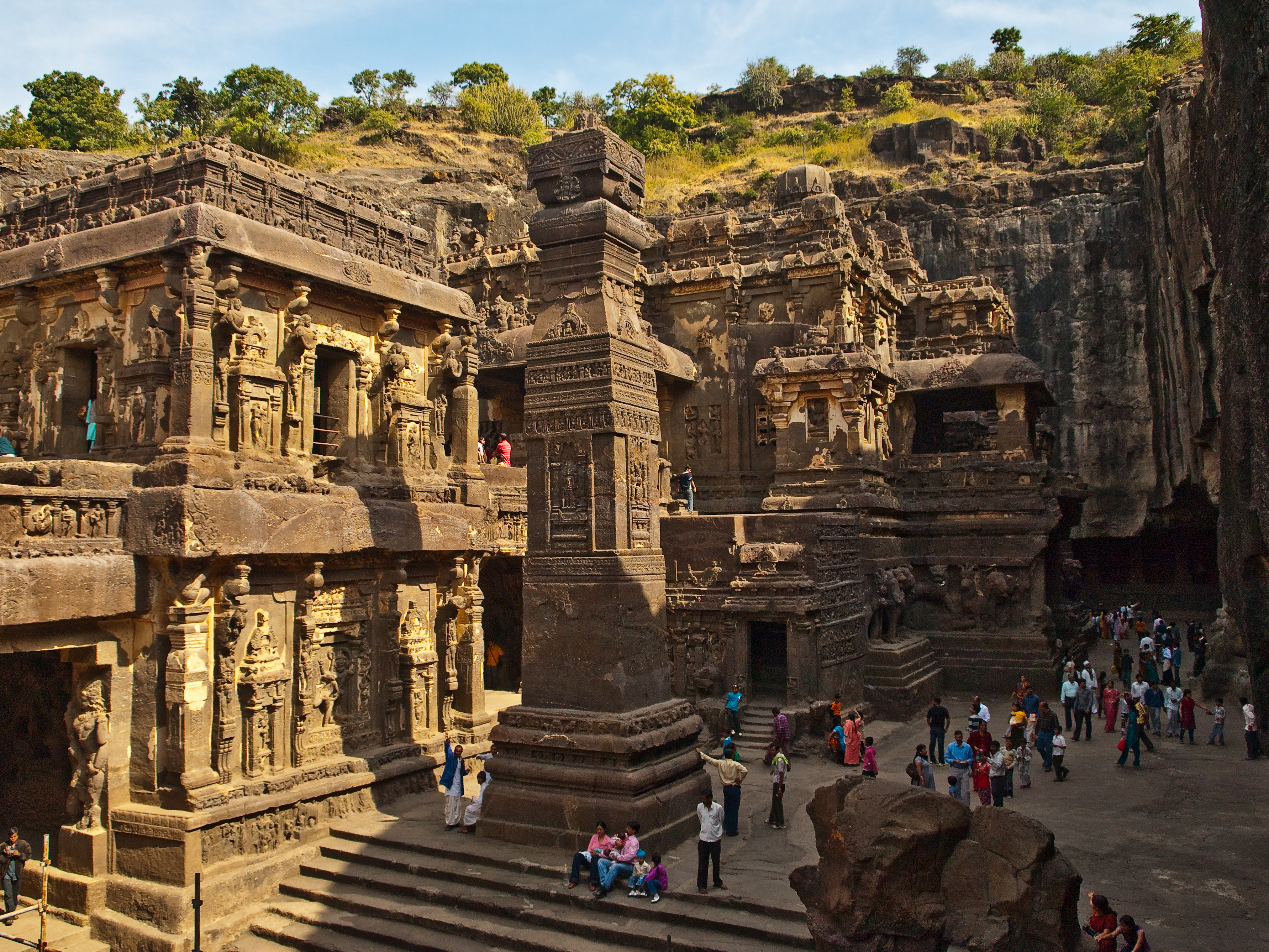 Kailash Temple, Ellora